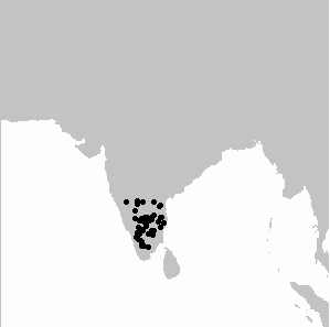 Distribution map of Pycnonotus xantholaemus generated by BirdSpot 3.6